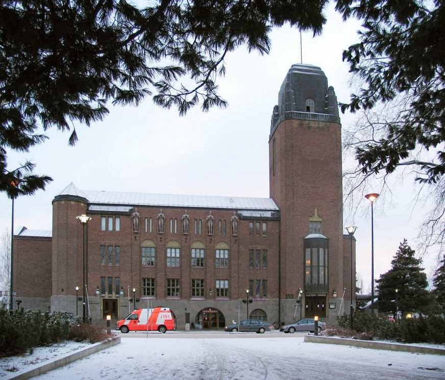 Joensuu city hall in Joensuu, Finland